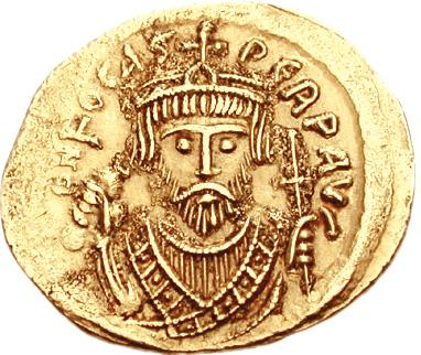 See File:Phocas cons.jpg.